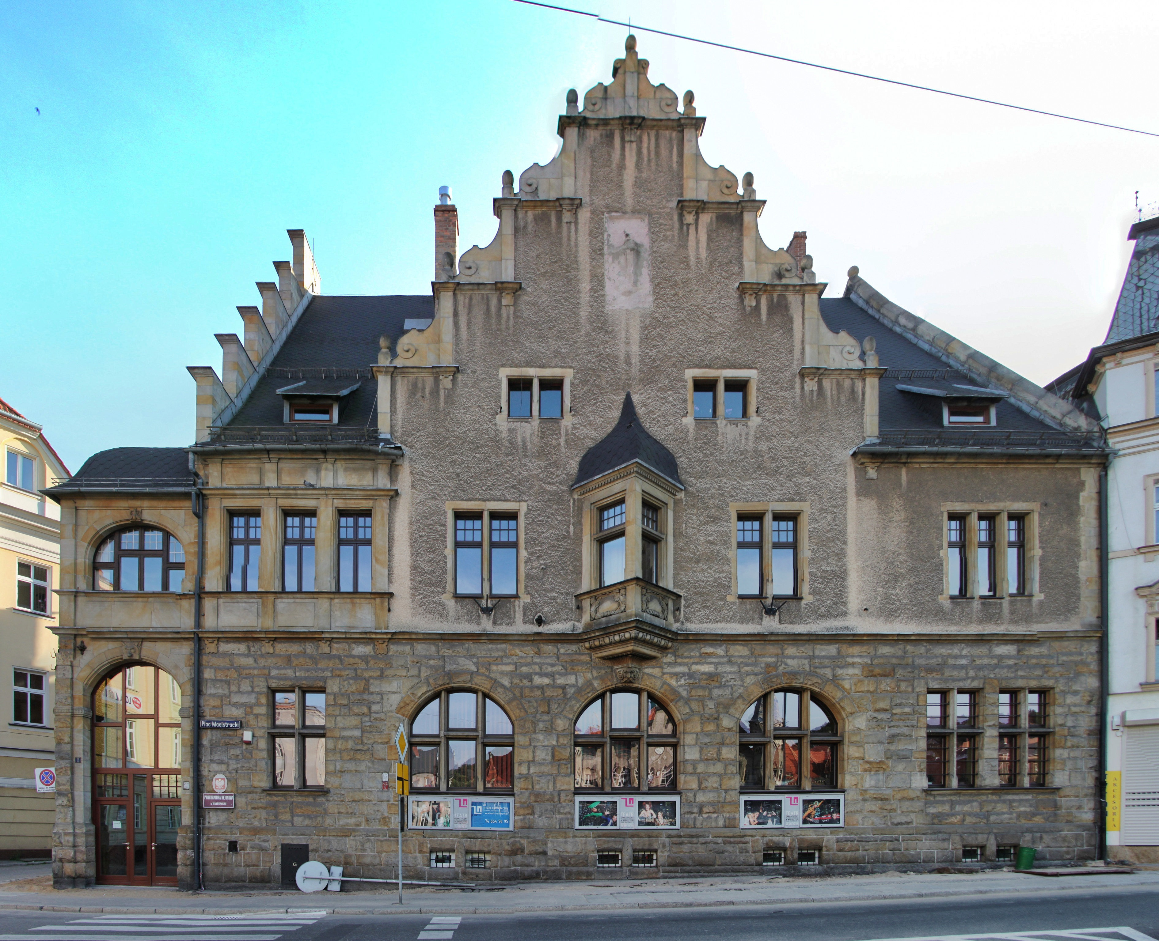 7 Magistracki Square in Wałbrzych.